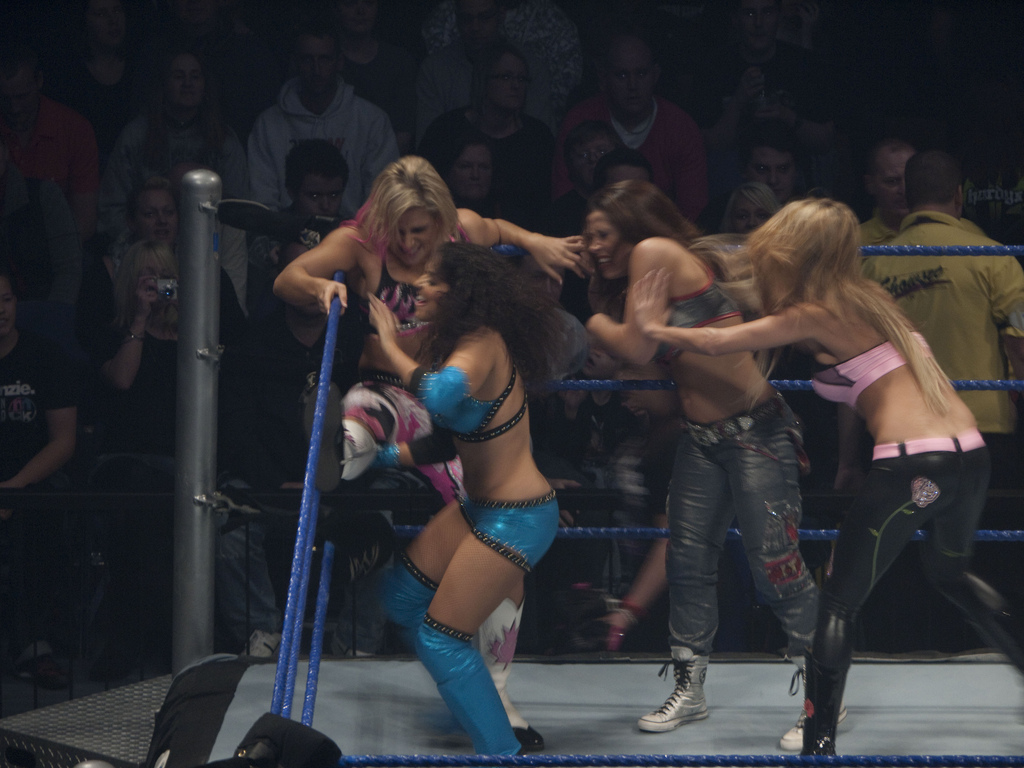 WWE Divas Natalya (far left dressed in pink and black), Layla (second from right, wearing blue), Mickie James (second from left wearing grey), and Rosa Mendes (far right, wearing a pink top and black trousers), during a Battle Royal at a WWE house show on November 8, 2009.